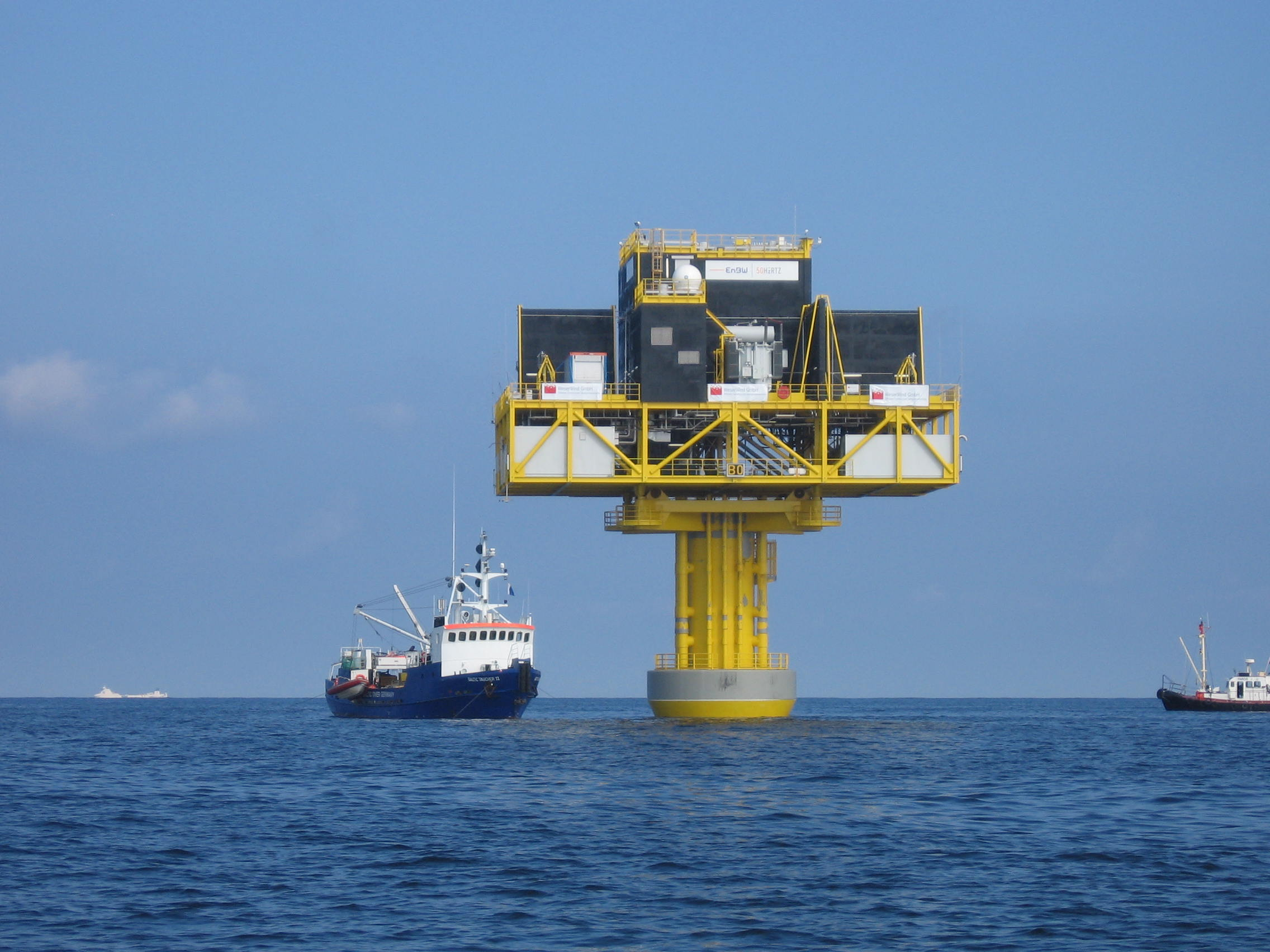 Electrical substation of the Baltic 1 offshore wind farm in the Baltic Sea